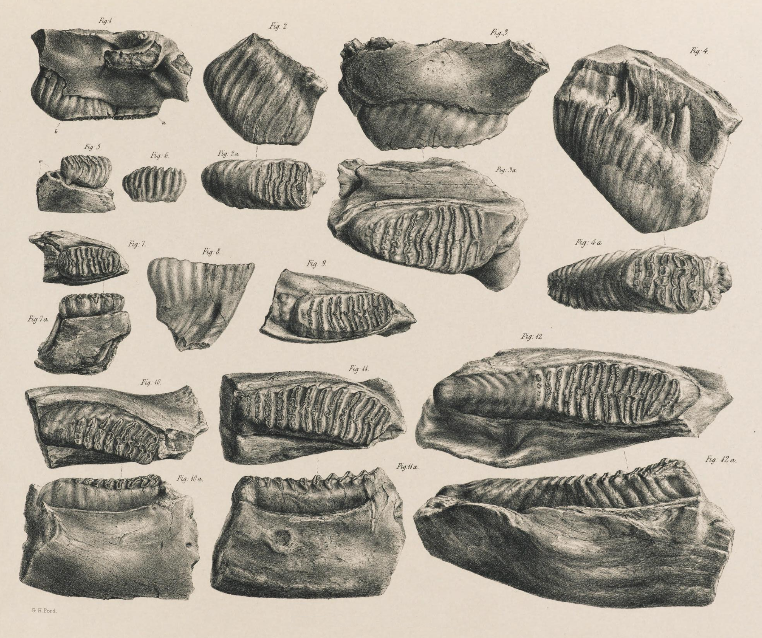 Teeth of Elephas_hysudricus from the sepcies description by Hugh Falconer and Proby Thomas Cautley